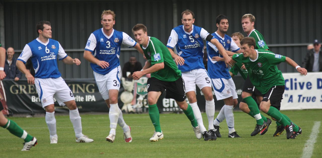 Eastleigh v Lewes Sept 10_0101_edited-1